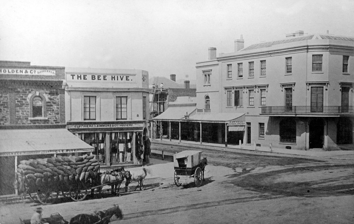 Waterhouse Chambers (1847) opposite Bee Hive Corner, Cnr King William & Rundle Streets, 1866 Photographer: Francis Gabriel Summary Corner of Rundle Street and King William Street, Adelaide. A three horse team and laden waggon is standing outside J.A. Holden, Saddlers. [This business is the forerunner to General Motors Holden.] In the centre of the view, a man on a scaffold is engaged in building work. On the ground floor of the Bee Hive corner is I. Simmons & Co., Clothiers. Opposite, on the right, is Waterhouse Chambers. Visit the State Library of South Australia to view more photos of South Australia